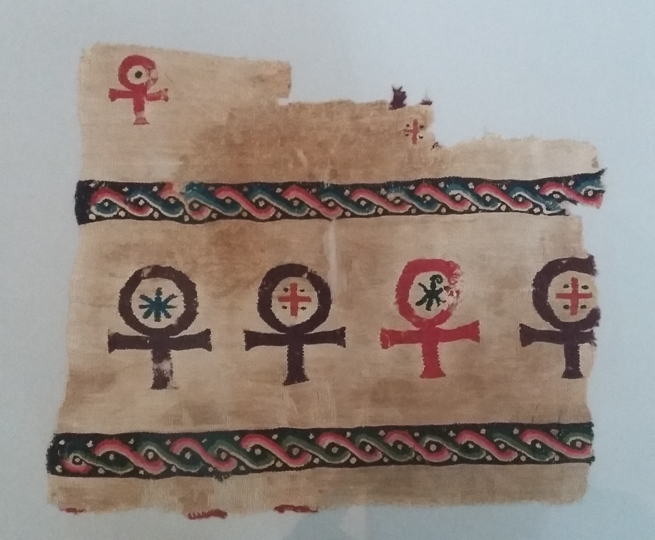 Ankh symbols (on a fragment of cloth) On display at the Victoria and Albert Museum Museum (see here for the museum's record about this exhibit).